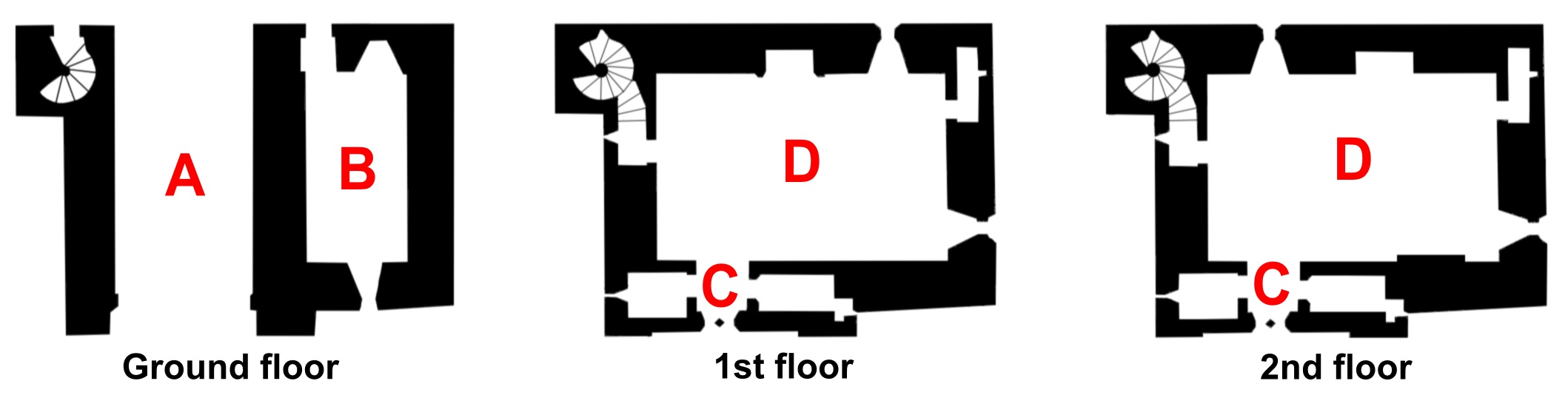 Plan of Wetheral Abbey Gatehouse; after Martindale, J.H., 1922, 'The Priory of Wetheral' Transactions of the Cumberland and Westmorland Antiquarian and Archaeological Society Vol. 22